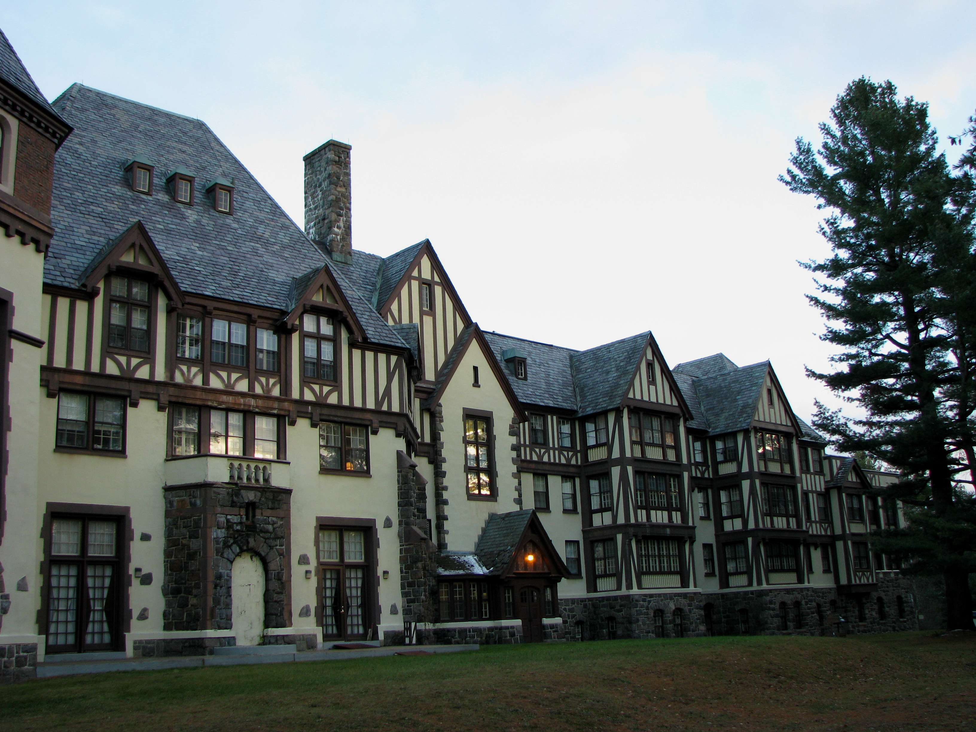 Saranac Village at Will Rogers